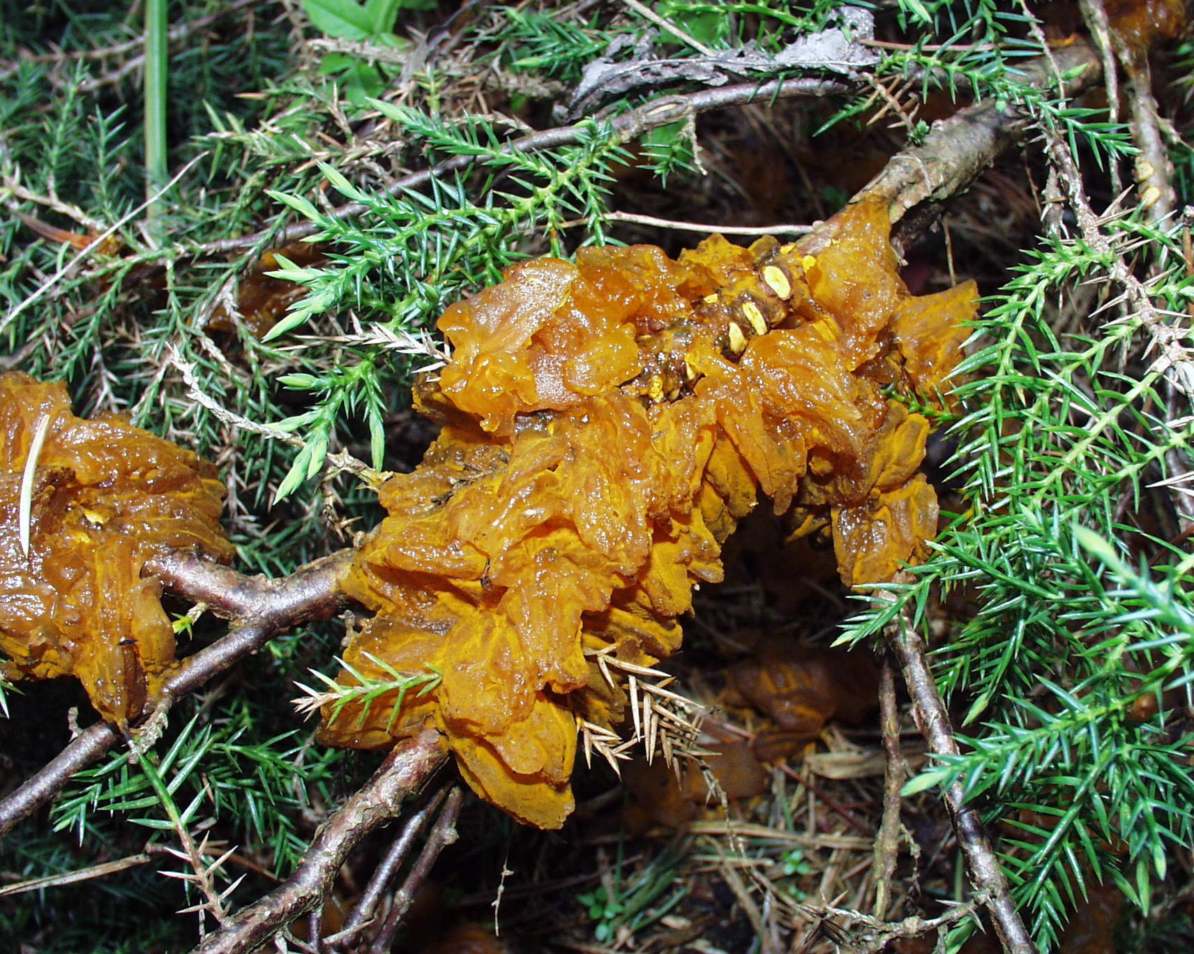 The making of this document was supported by the Community-Budget of Wikimedia Germany. OLYMPUS DIGITAL CAMERA